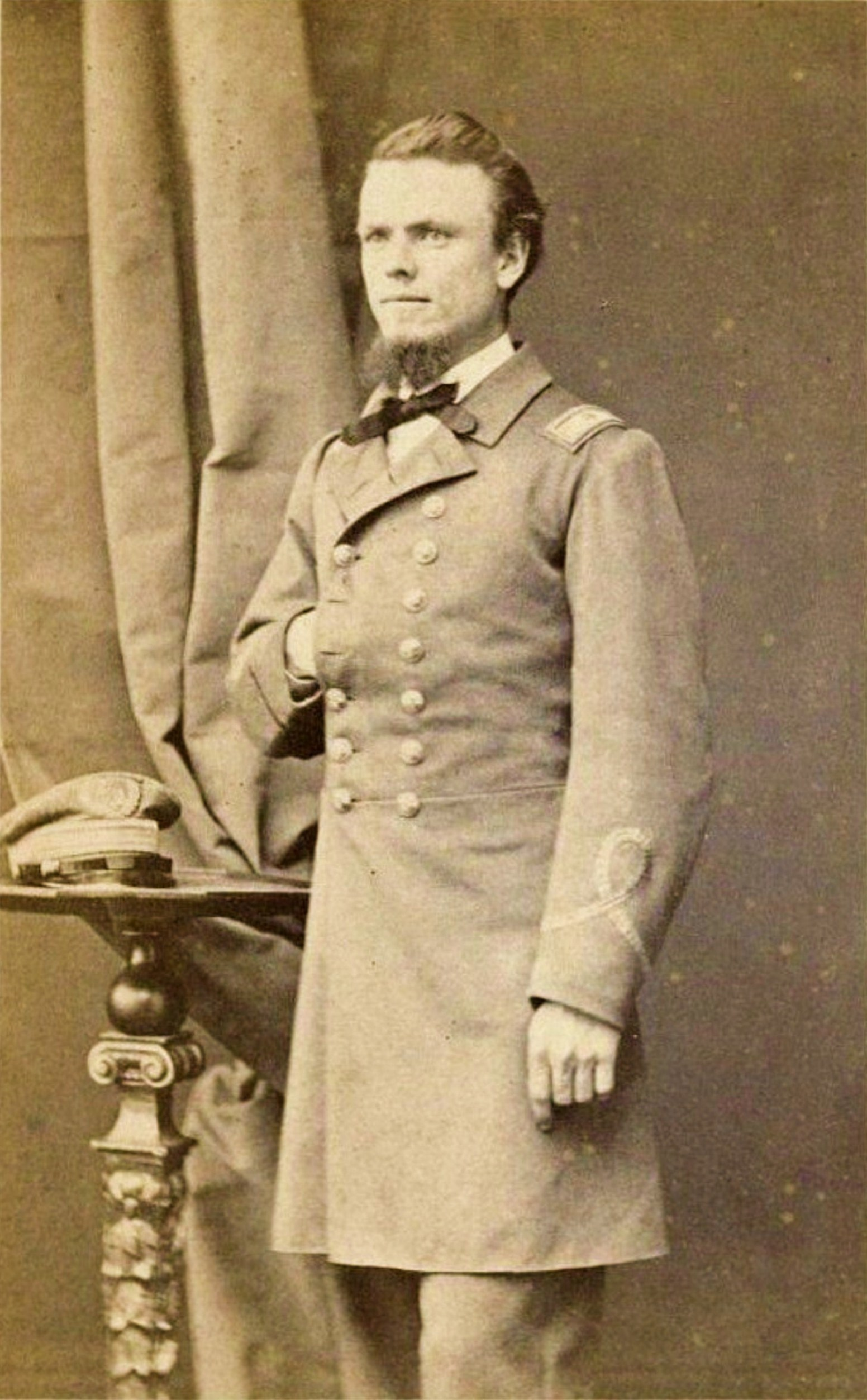 John Grimball was born on April 18, 1840 in Charleston, Charleston County, South Carolina, United States. He is the fourth son of John Berkeley Grimball, a rice farmer from Charleston and Colleton District, and Margaret Ann Morris. A graduate of the US Naval Academy in 1858, he served in the US Navy from 1858 to 1860. John Grimball resigned from the US Navy a few days after his South Carolina left the Union. He integrated the Confederate Navy and joined the Palmetto State on December 29, 1860. He was present when the cadets fired at the Star of the West on January 9, 1861, preventing him from delivering supplies. to Major Robert Anderson at Fort Sumter. He became an officer with the rank of lieutenant on R.E. Lee (1863) and Shenandoah (1864-1865). This cruiser wreaked havoc on Union merchant ships until surrender on November 6, 1865 - seven months after General Robert E. Lee surrendered his army from Northern Virginia to Appomattox Court House. The Shenandoah is credited with firing the last cannon of the Civil War. After the war, he was a lawyer and a judge in Charleston. He married in first marriage in 1876 with Catherine Katie Moore, then in second marriage in 1885 with Mary Georgianna Barnwell. he died on December 25, 1922 in Charleston.